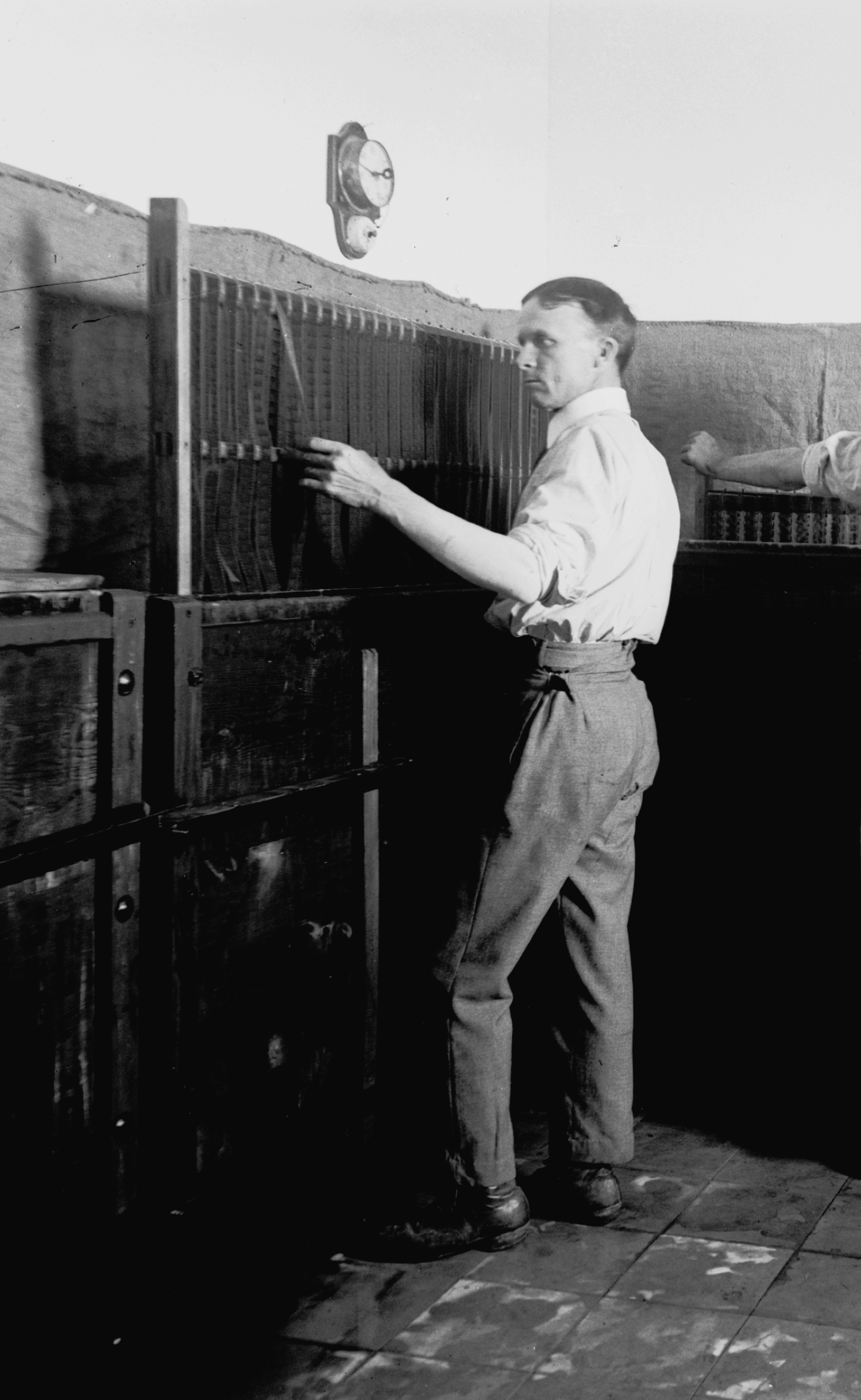 Lewis Larsson developing film in the American Colony of Jerusalem's Photo Lab. Circa 1920-1935. Library of Congress